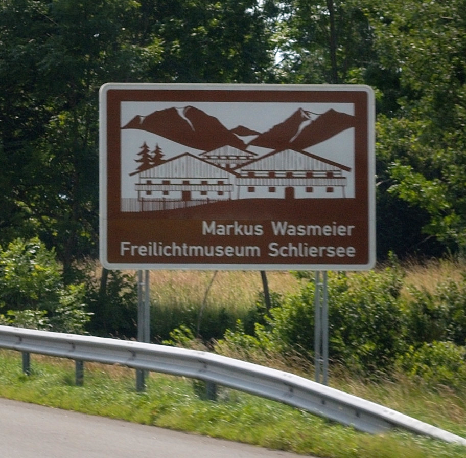 Road sign for the Markus Wasmeier open air museum in Schliersee. Road shot from A 8.